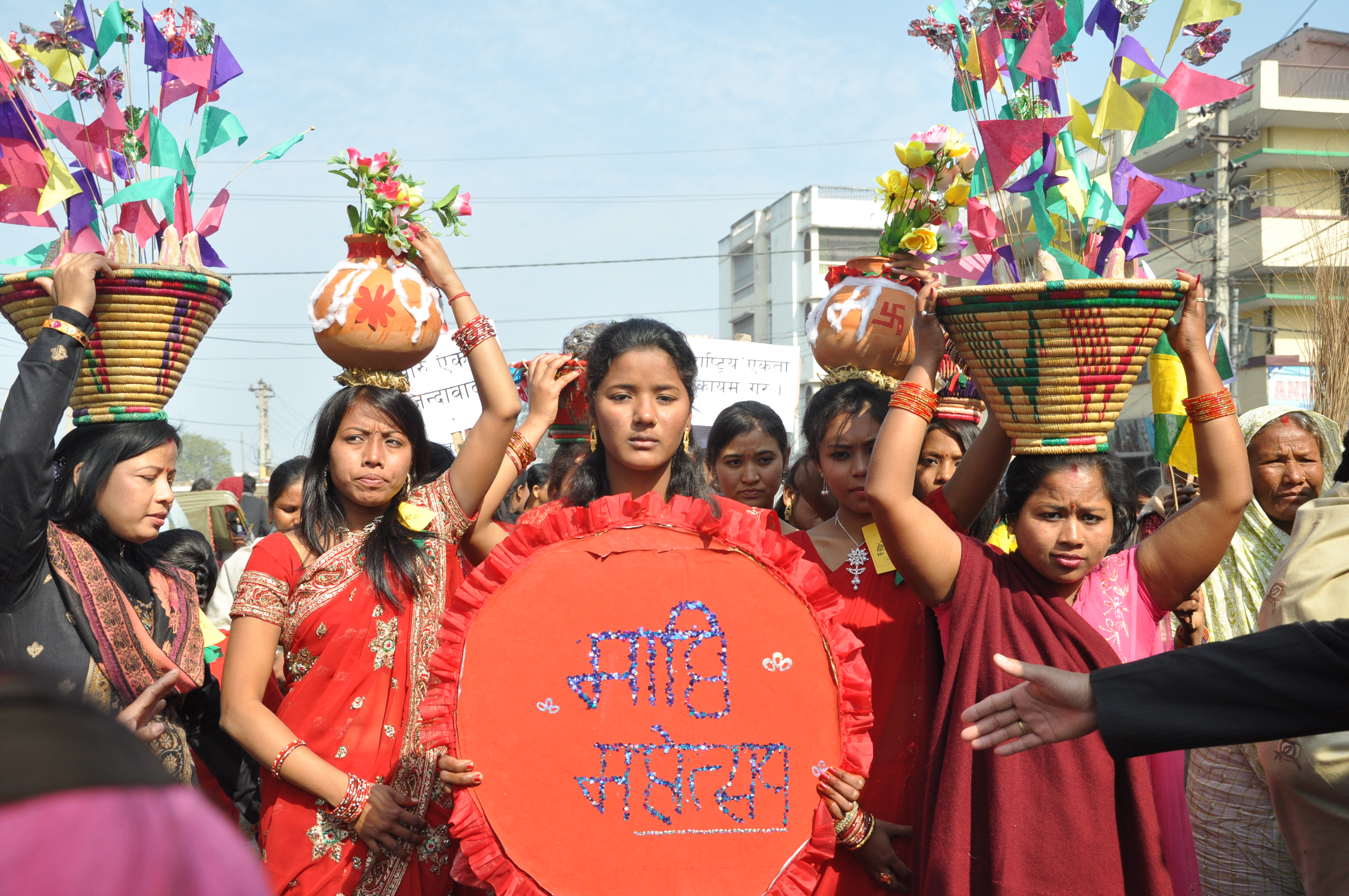 माघी पर्व मनाइदै